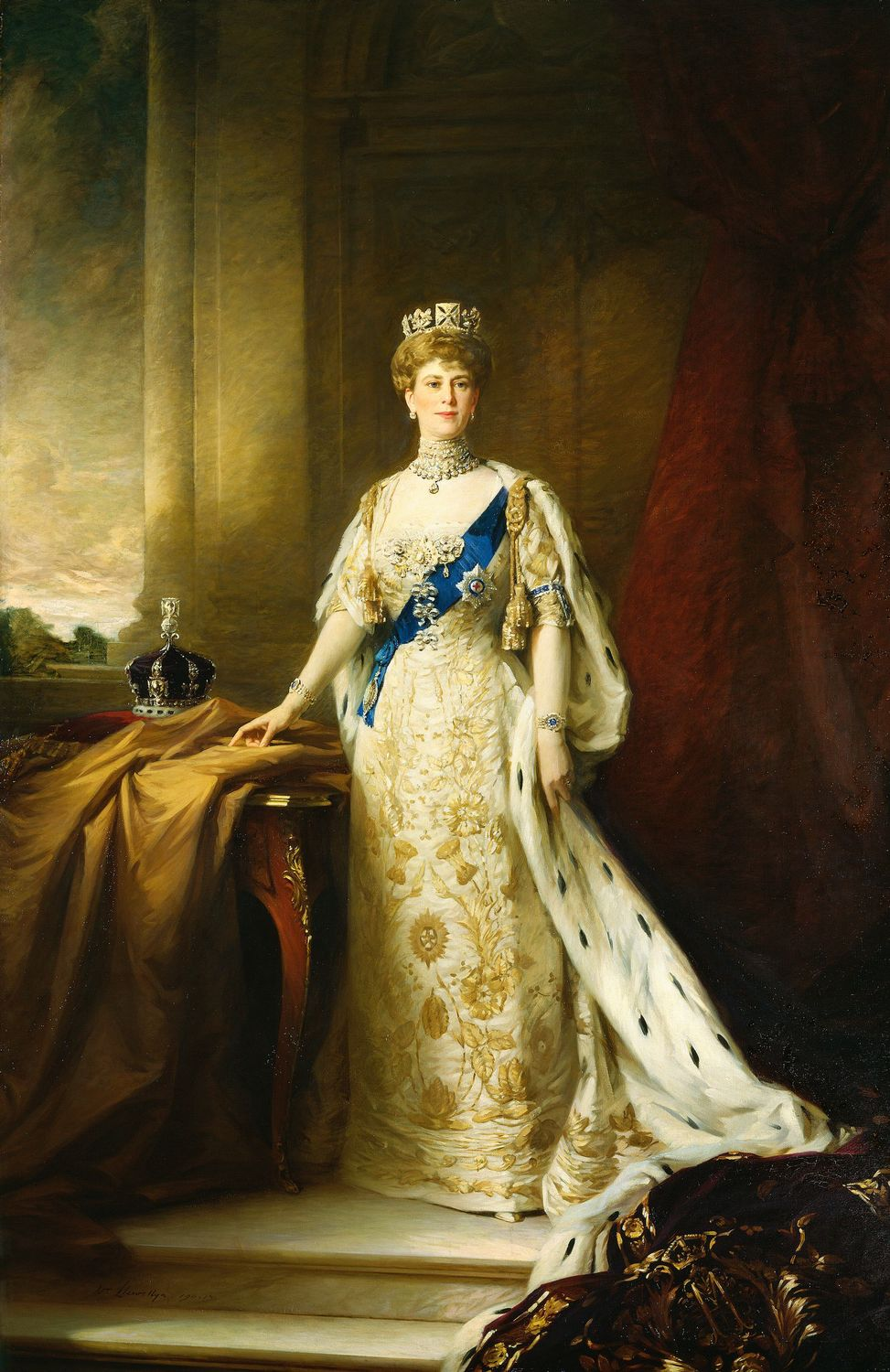 Coronation portrait of Queen Mary of Teck